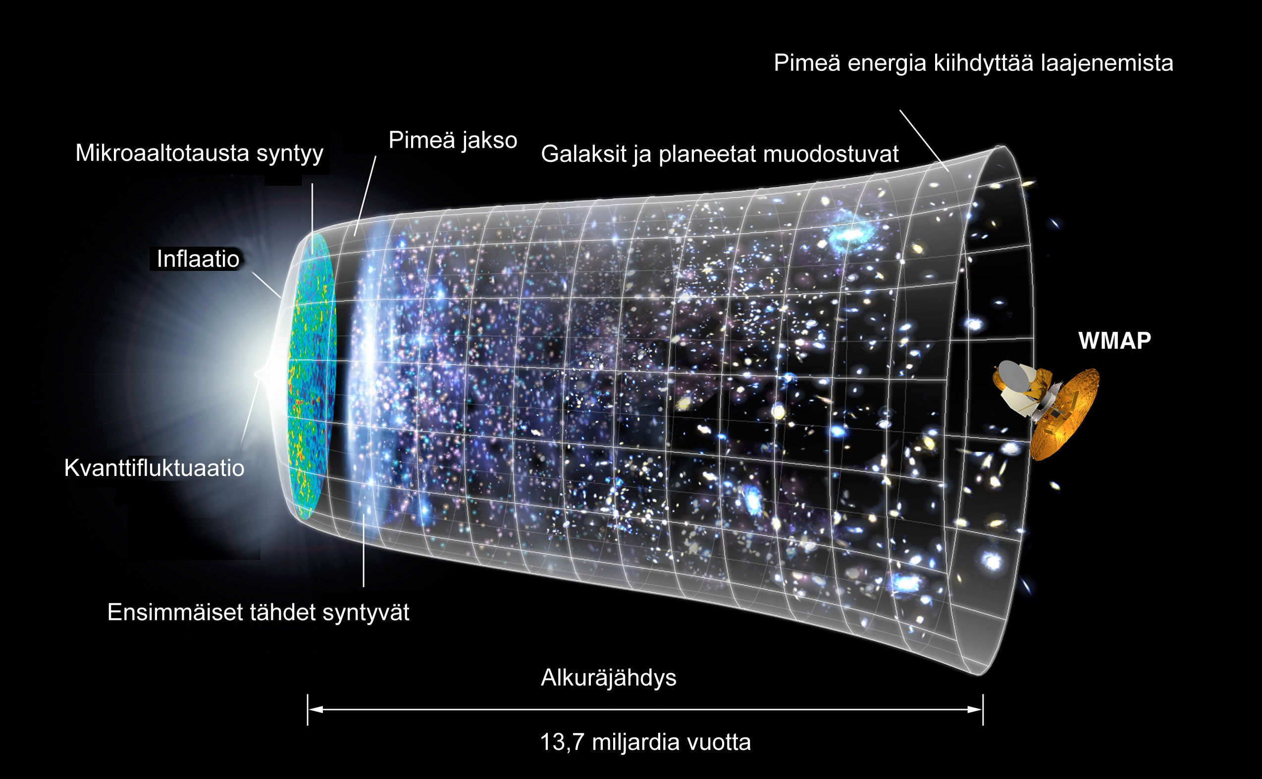 Original picture: NASA wmap-team. Translated.